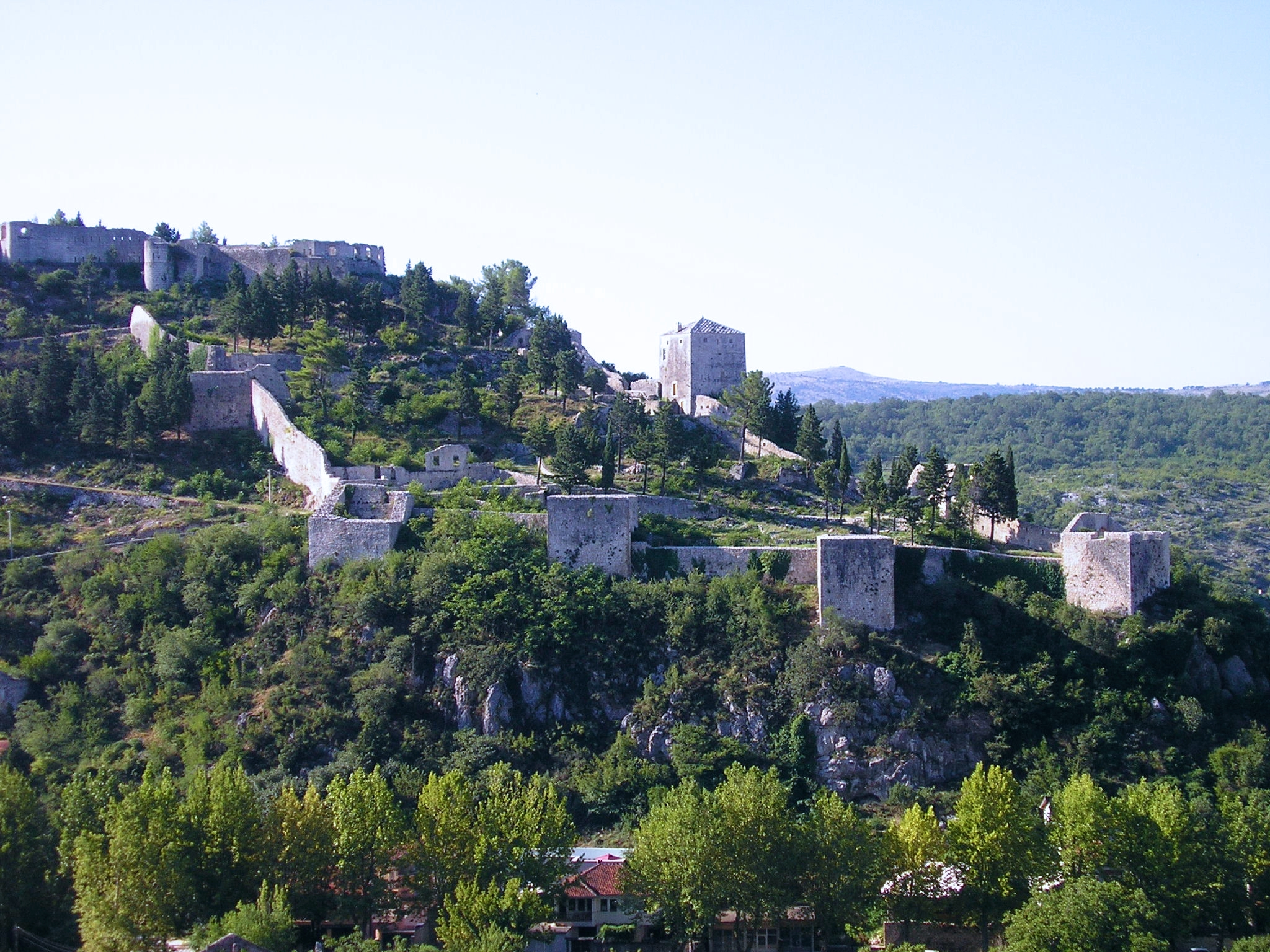 Vidoski, old town Stolac